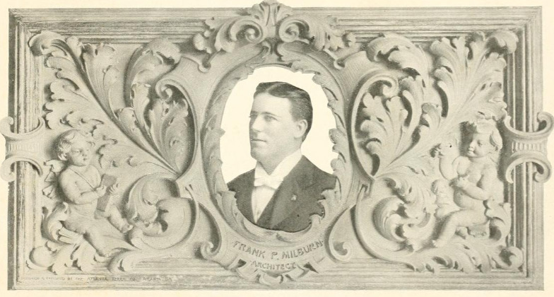 Portrait of Frank P. Milburn, architect, from a self-published book of his work dated 1901